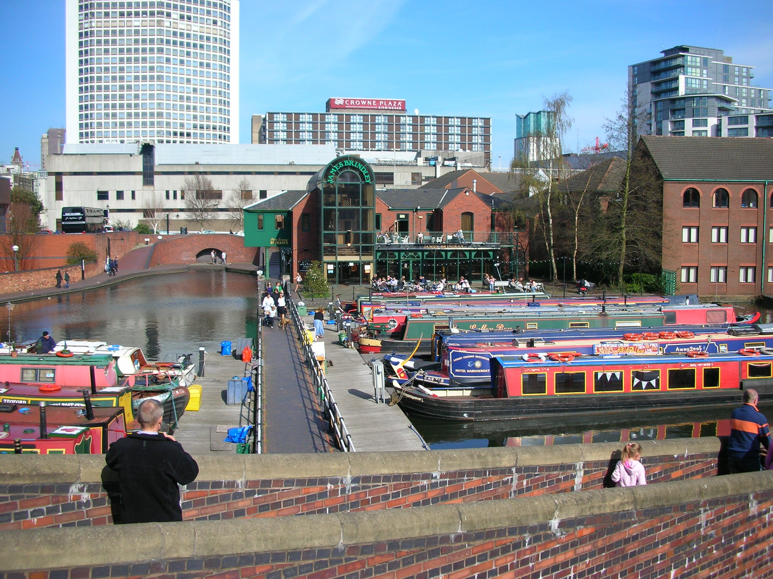 Gas Street Basin, central Birmingham, England. The Worcester Bar between the BCN Main Line (left) and Worcester and Birmingham Canal (right) originally was a physical barrier to prevent water loss from one canal to the other. Goods had to be transferred over the bar from a boat on one canal to a boat on the other. Now opened up to allow boats to pass between canals. The tall building is Alpha Tower. Photographed by me 6 April 2007. Oosoom 23:00, 9 April 2007 (UTC)